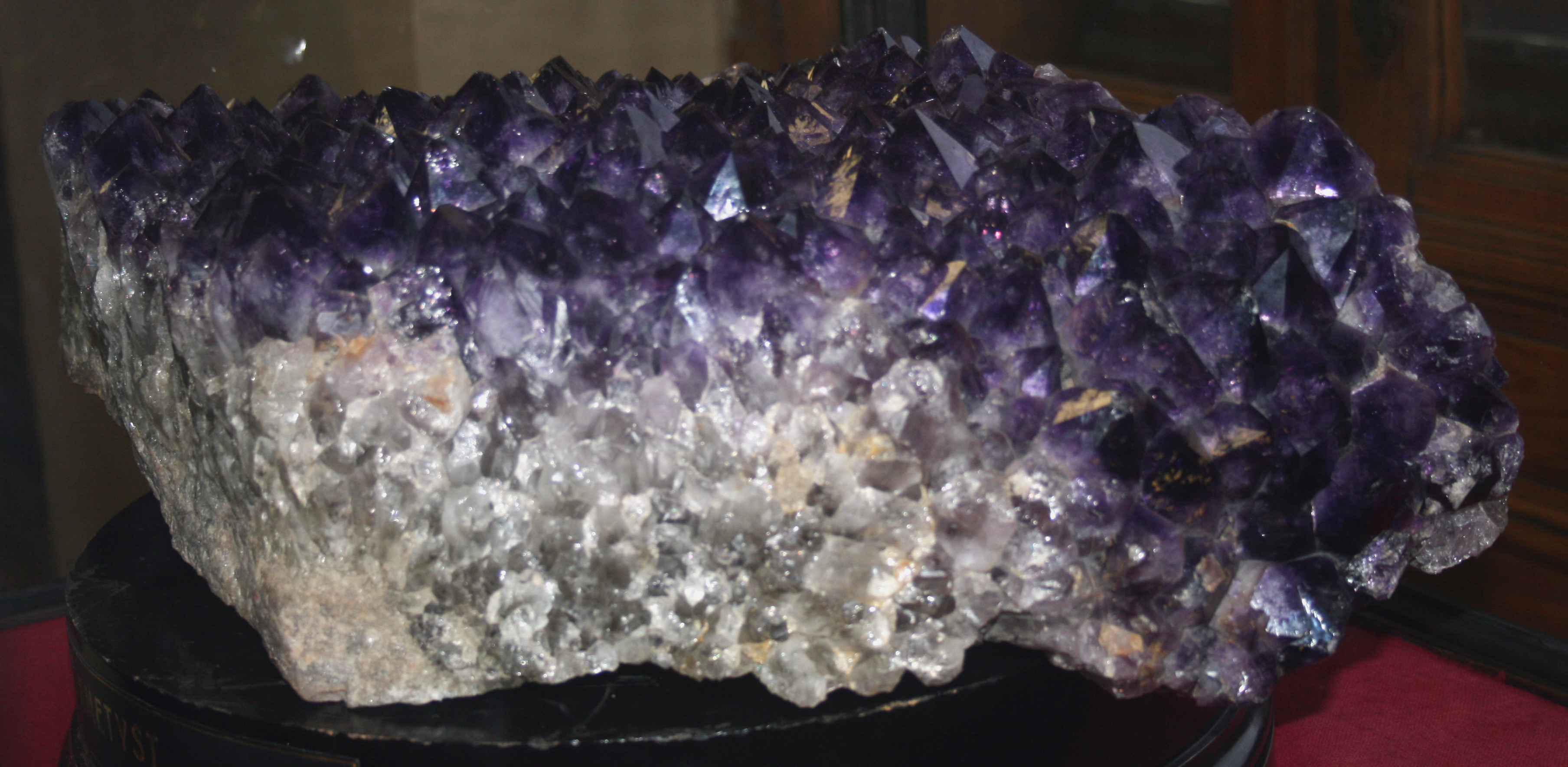 Mineral amethyste,chemical composition: SiO2, weight: 70 kg, from collection of National Museum, Prague, Czech Republic, originally from Brasilia